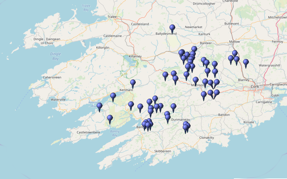 Locations of Axial five-stone circles in County Cork and County Kerry in Ireland as mapped by OpenStreetMap from template:GeoGroup and using data (but not creative content) extracted from Historical Environment Viewer. Archaeological Survey of Ireland. View of coordinates in User:Thincat/sandbox on 1 March 2020. This map may be incomplete, and may contain errors. Don't rely solely on it for navigation.